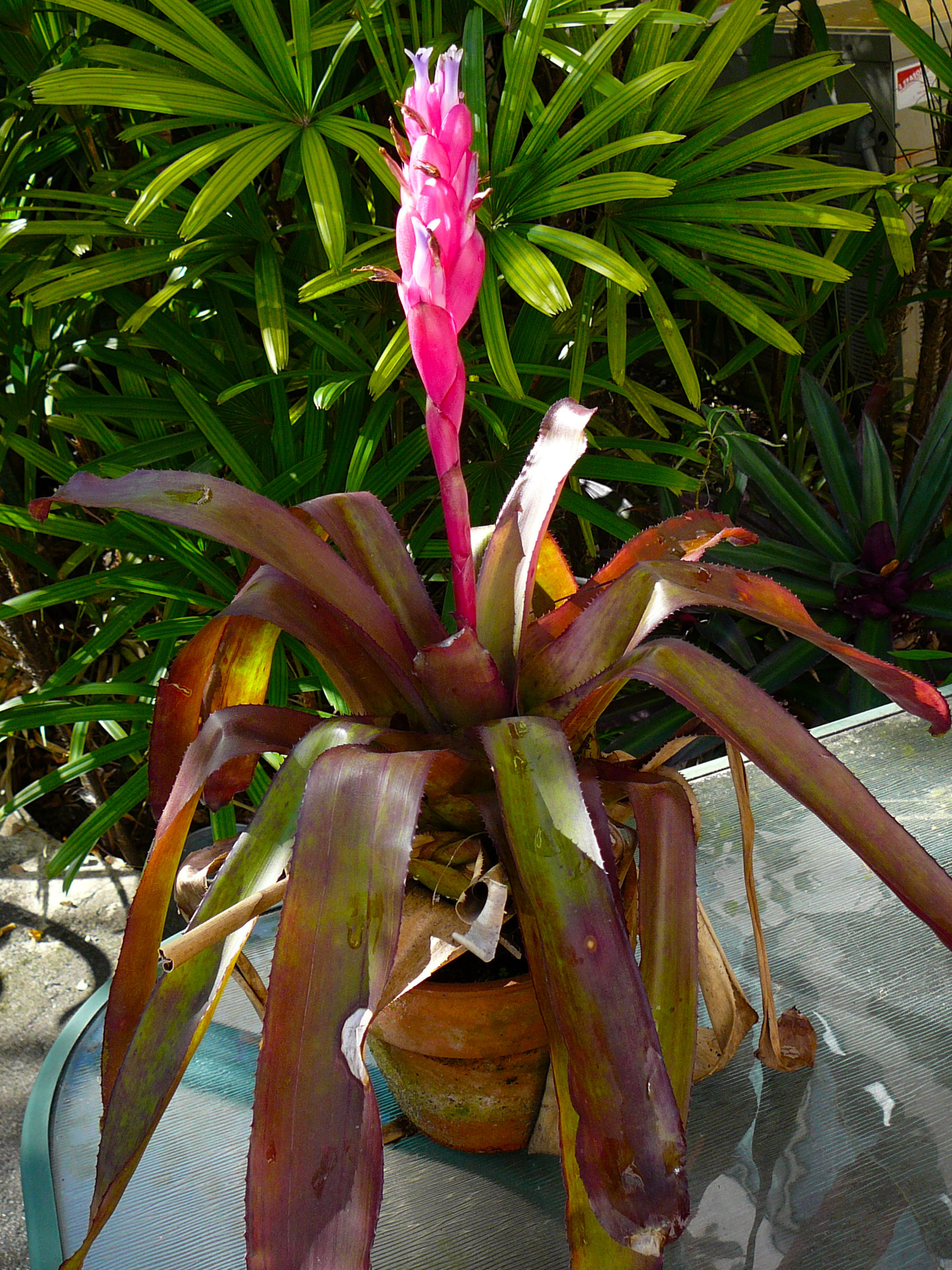 Portea Kermesiana - Grows as a terrestrial on the margins of rivers